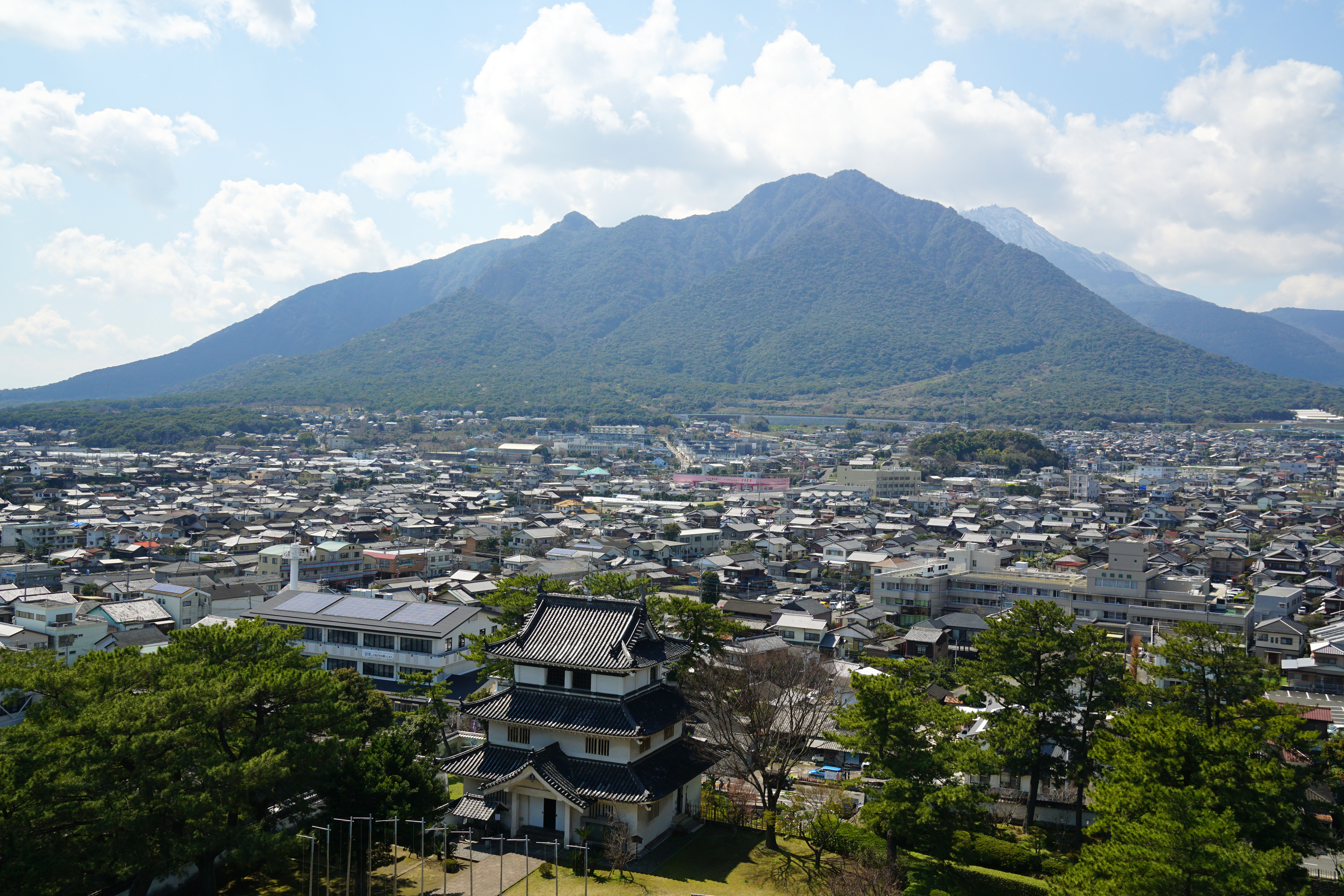 A view from Shimabara Castle in Shimabara, Nagasaki prefecture, Japan.